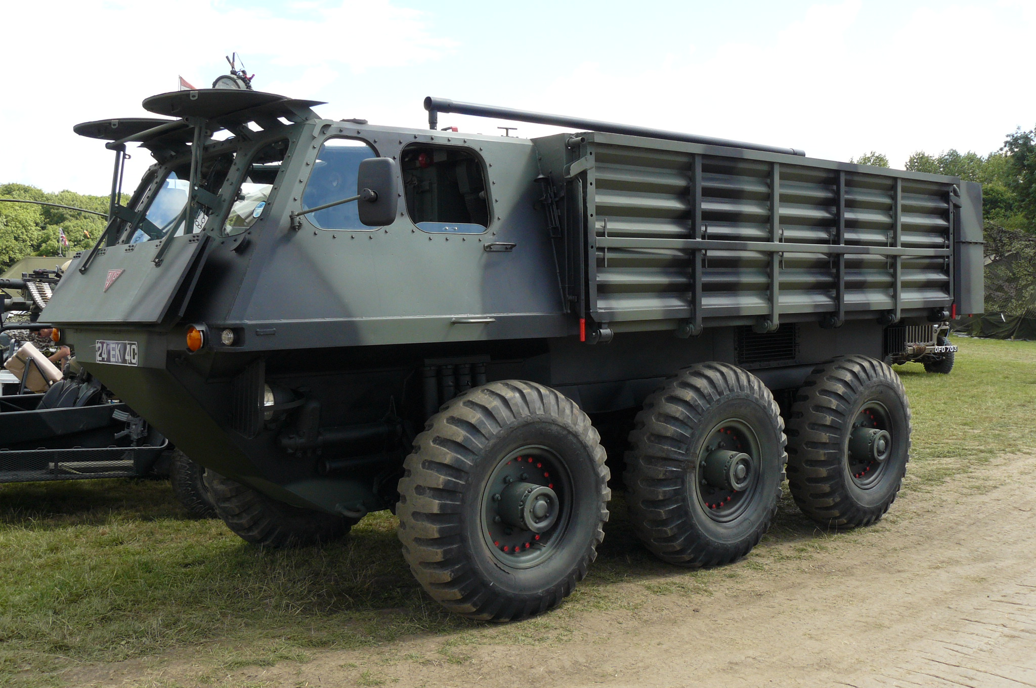 Alvis Stalwart as seen on War & Peace show 2011, UK